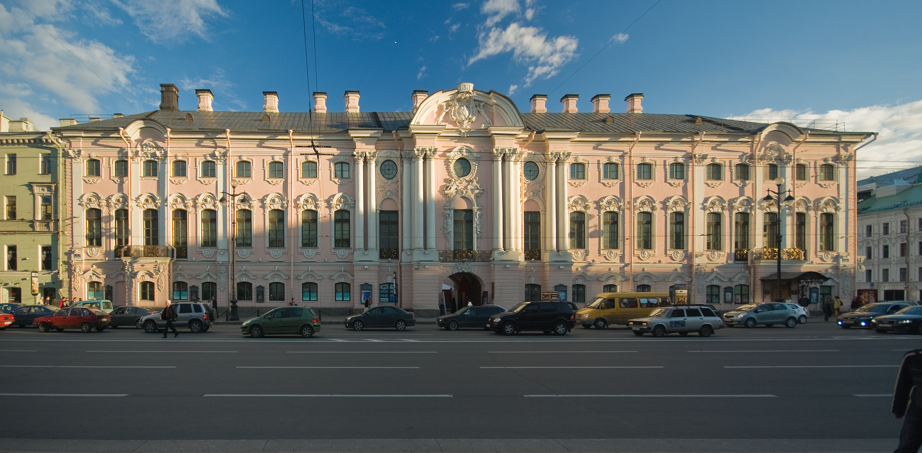 The Stroganov Palace in St. Petersburg, Russia